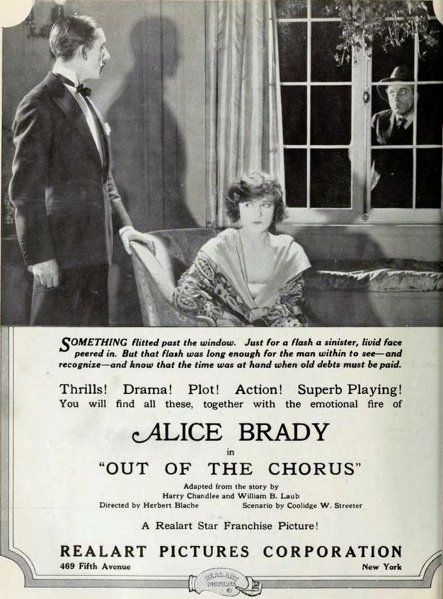 Ad for the American film Out of the Chorus (1921) with Alice Brady, inside front cover of the February 27, 1921 Film Daily.